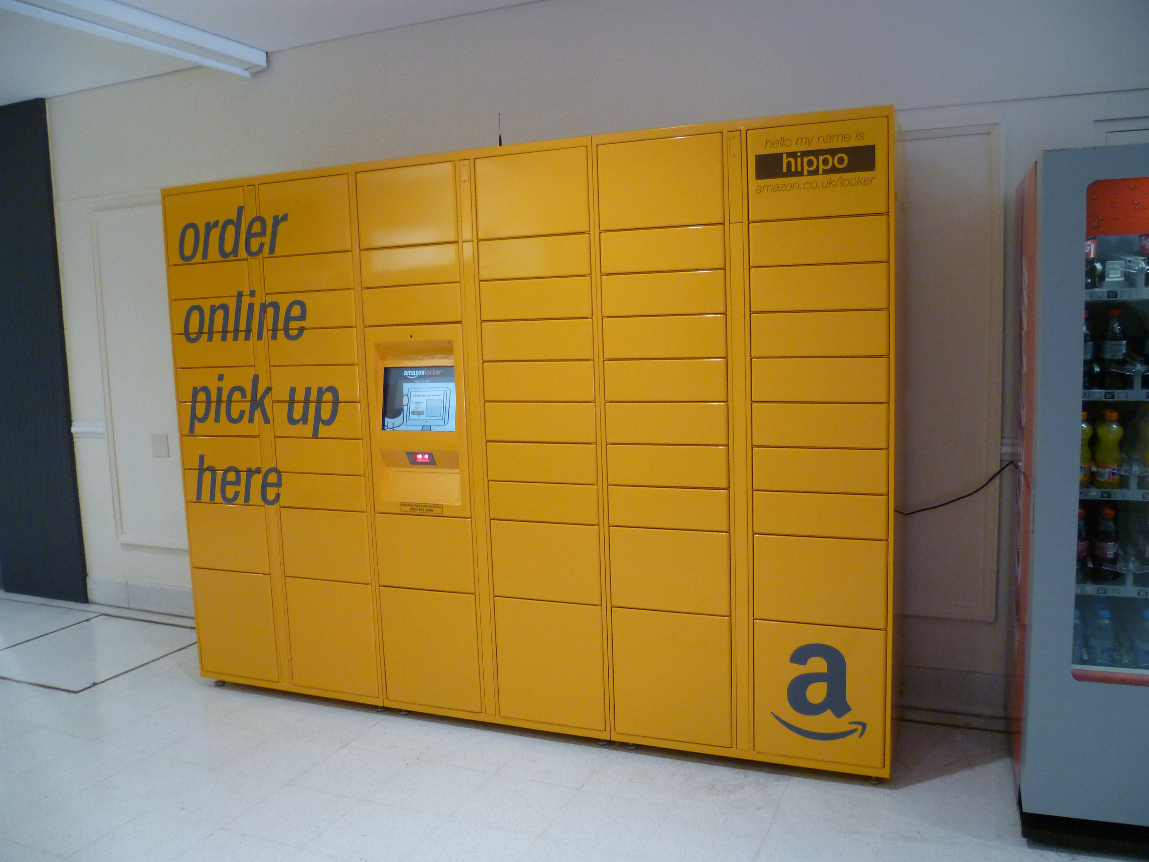 Gloucester